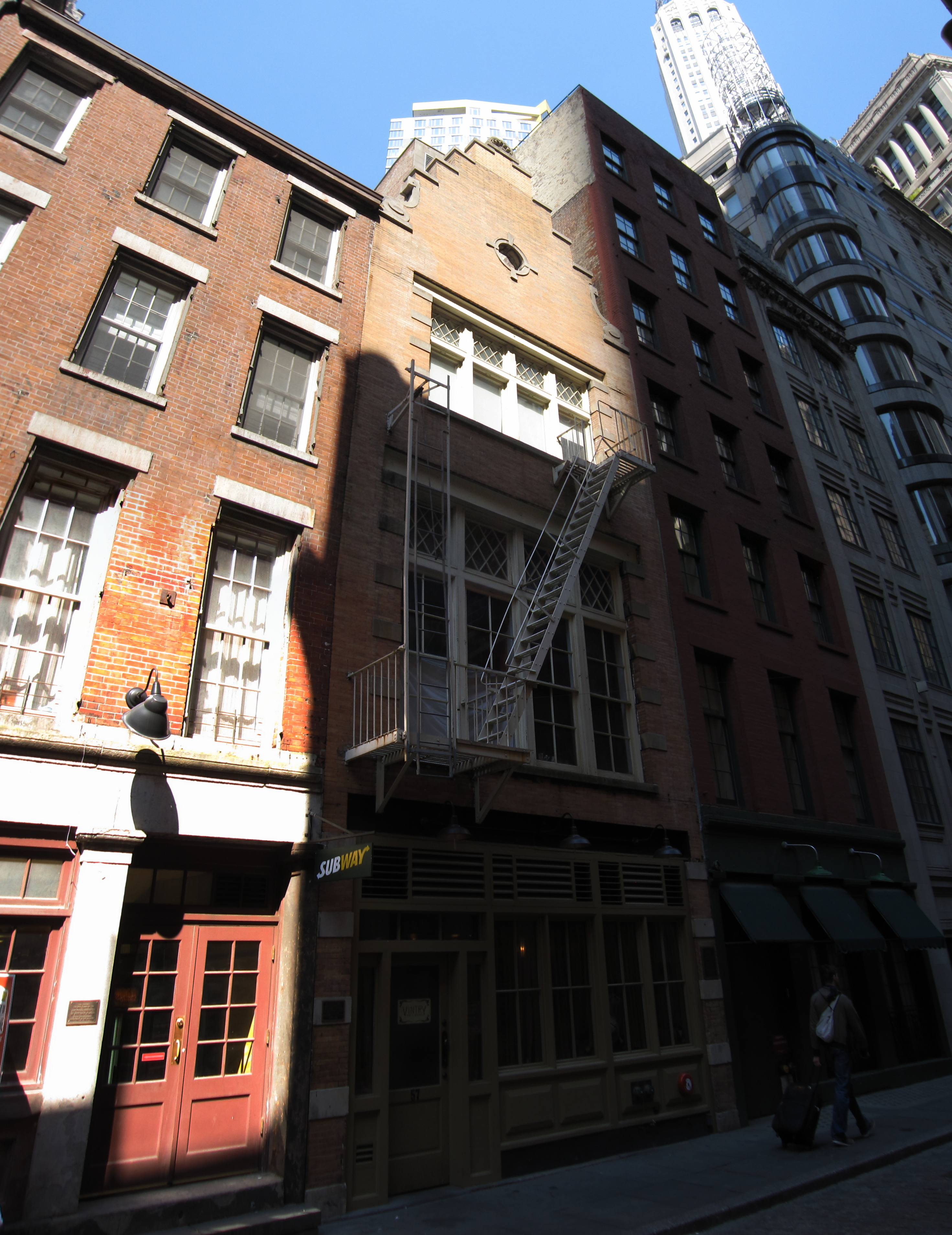 Stone Street in Manhattan